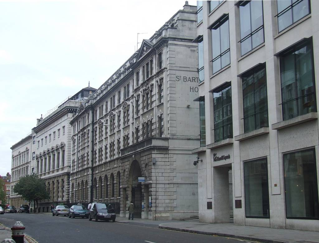 St. Bartholomew's Hospital (also called Barts) in London